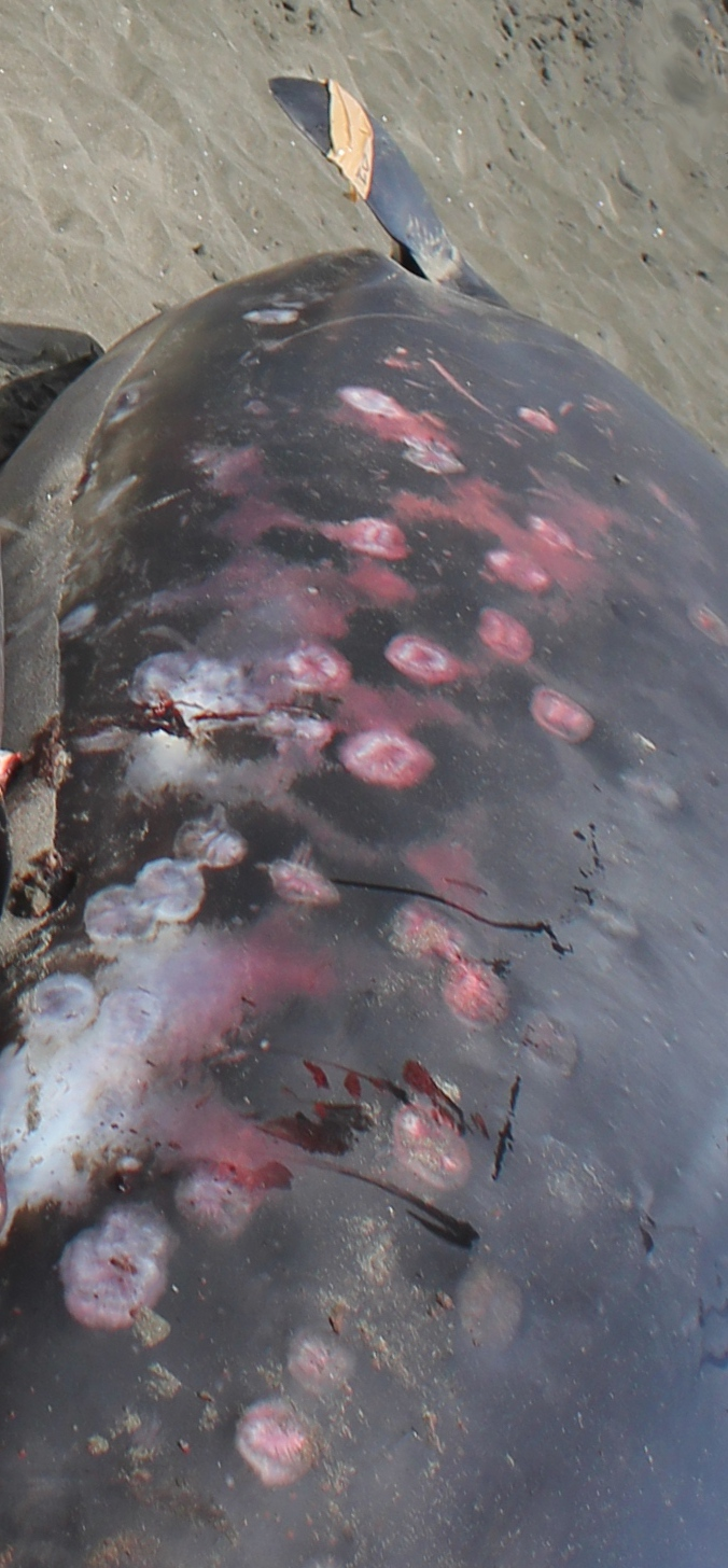 Round scars on the flank of a stranded female Gray's beaked whale (Mesoplodon grayi), probably from cookie-cutter shark bites.